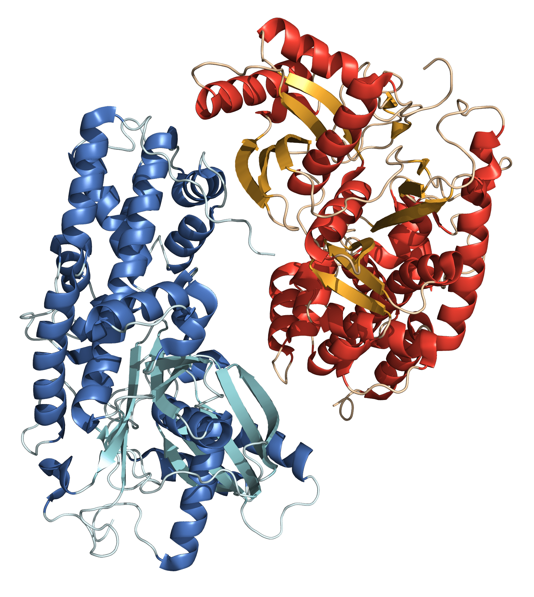 Structure of Hexokinase of the yeast Kluyveromyces lactis, that was determined using eight independent crystal forms.